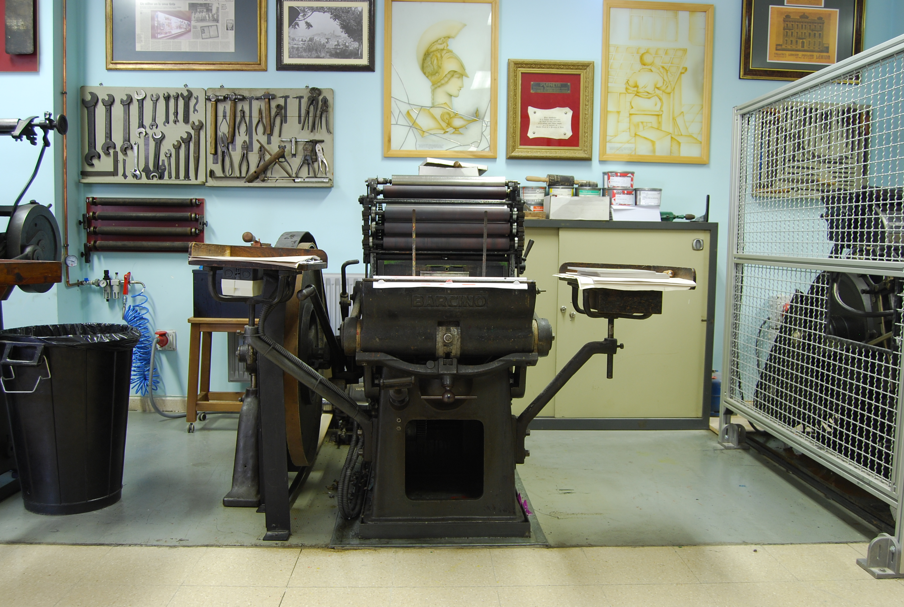 Impremta de la Diputació de Lleida